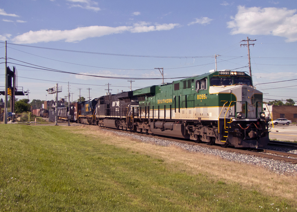 The Southern heritage unit leads Q335 into Grand Rapids on it's journey from Toledo's Walbridge Yard. The Southern unit was taken off of Q512 in Toledo and put on Q335 for a rare trip on CSX rails in Michigan.